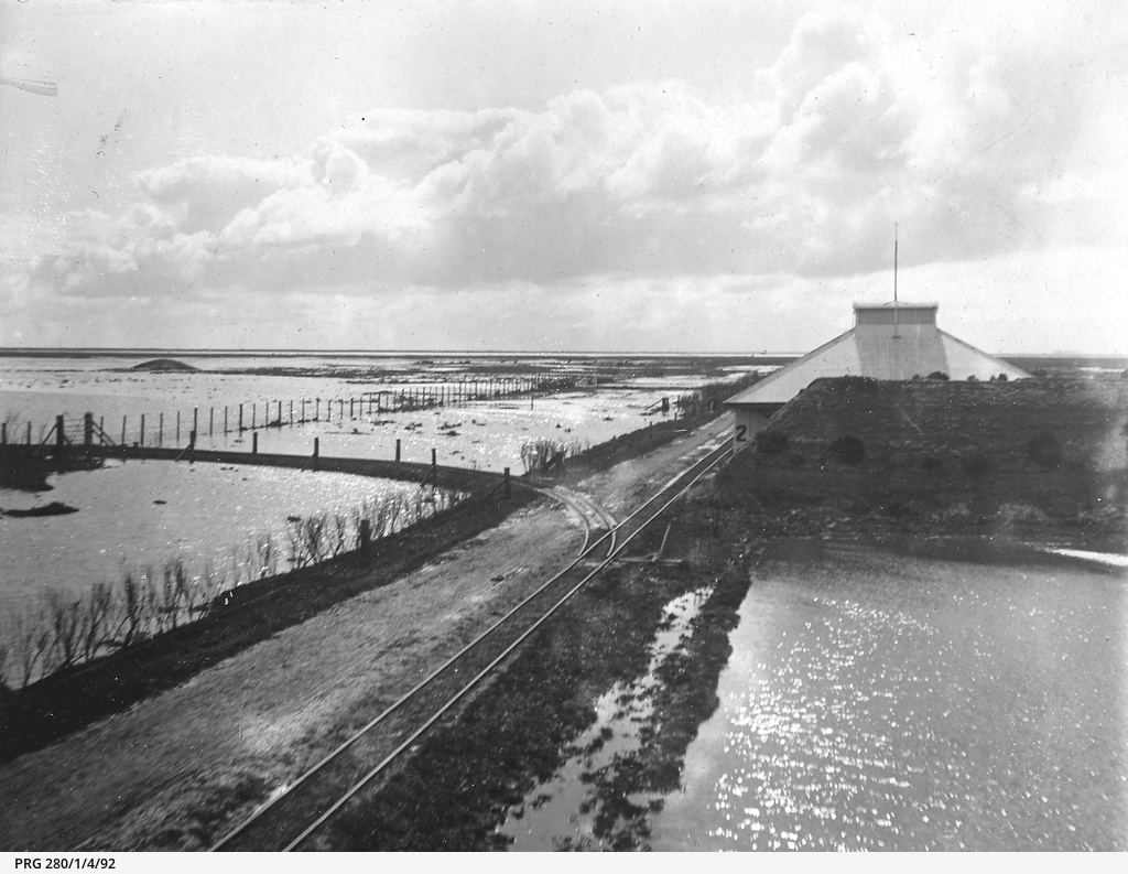 Buildings and powder magazines at Dry Creek during a severe flood in 1908